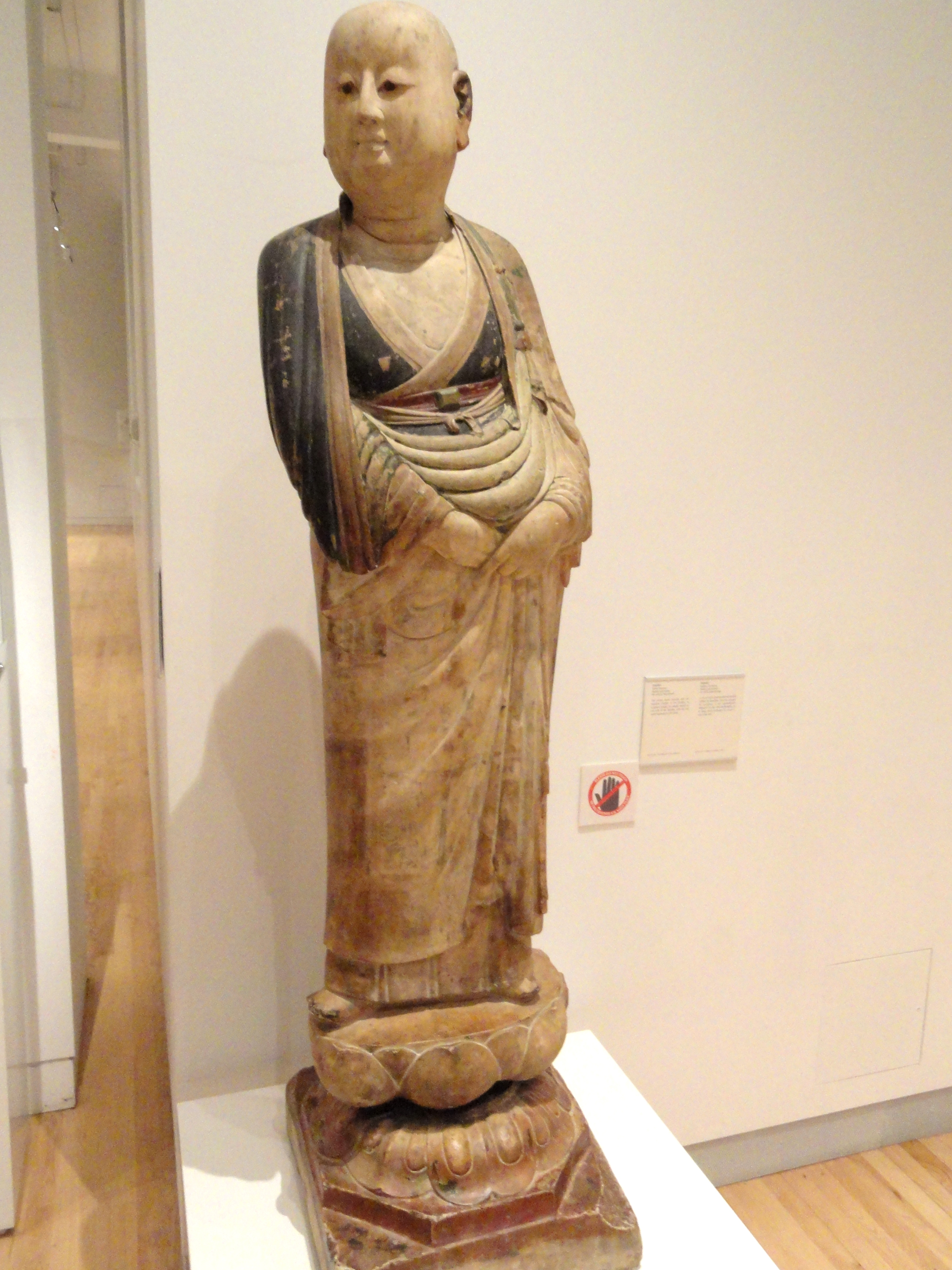 Exhibit in the Royal Ontario Museum, Toronto, Ontario, Canada. This exhibit is old enough so that it is in the public domain, and photography was permitted in the museum. I took this photograph and release it into the public domain.